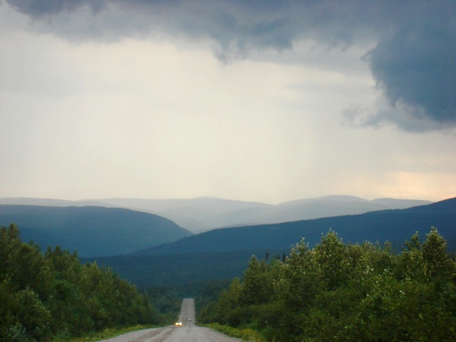 Chic-Chocs mountains, Gaspesia, Quebec.